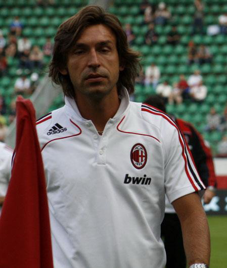 Andrea Pirlo